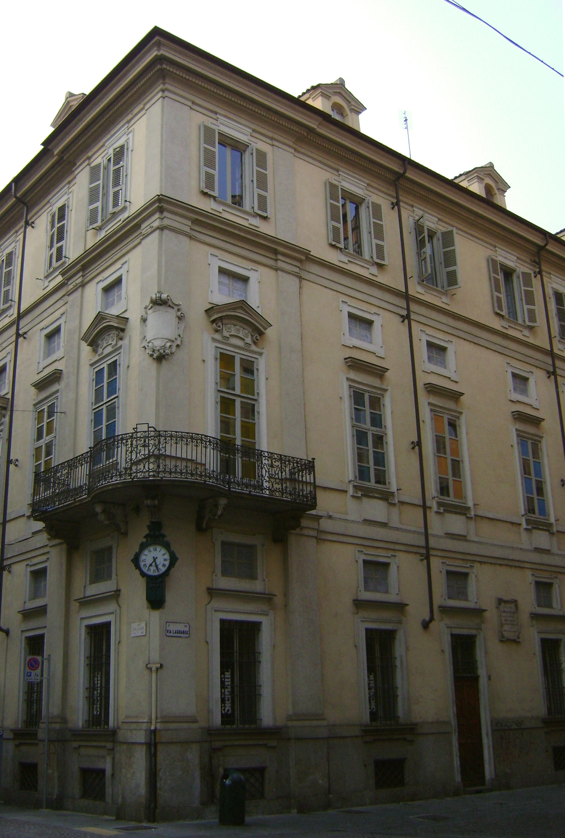 Benso di Cavour family palace at Turin (Italy)